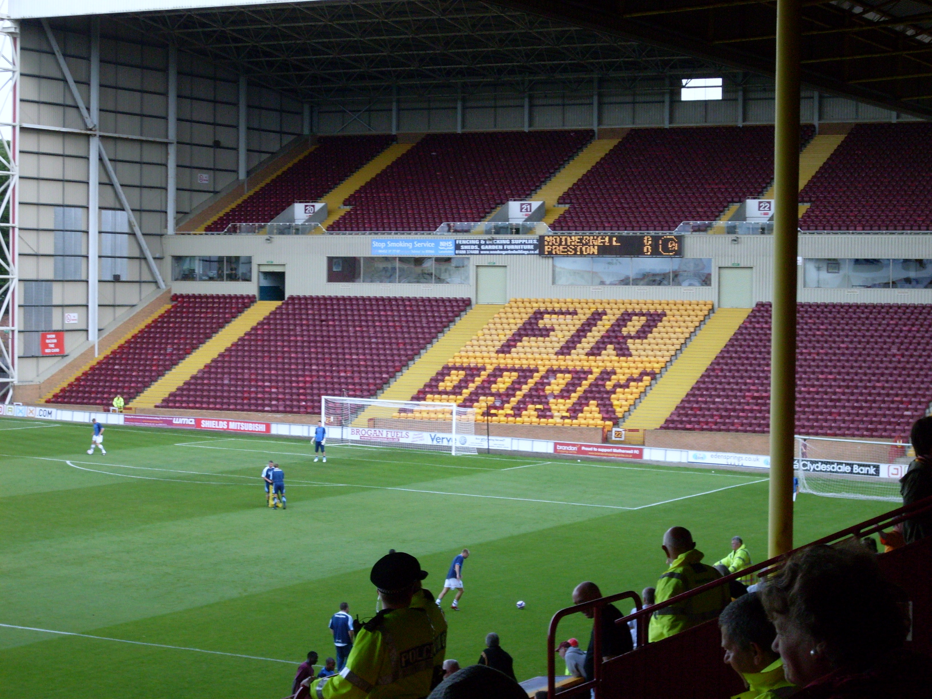 Preseason friendly 07/2008